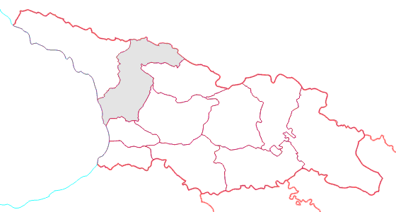 Map of Samegrelo-Zemo Svaneti